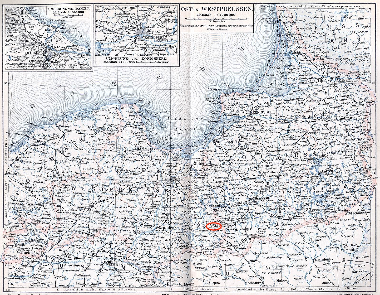 Löbau/Lubawa on a map of West Prussia and East Prussia (Westpreußen und Ostpreußen, Prusy Zachodnie i Prusy Wschodnie)